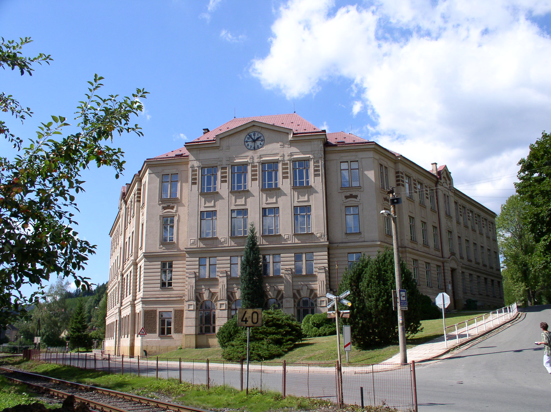 Teplice nad Metuji - building of elementary school